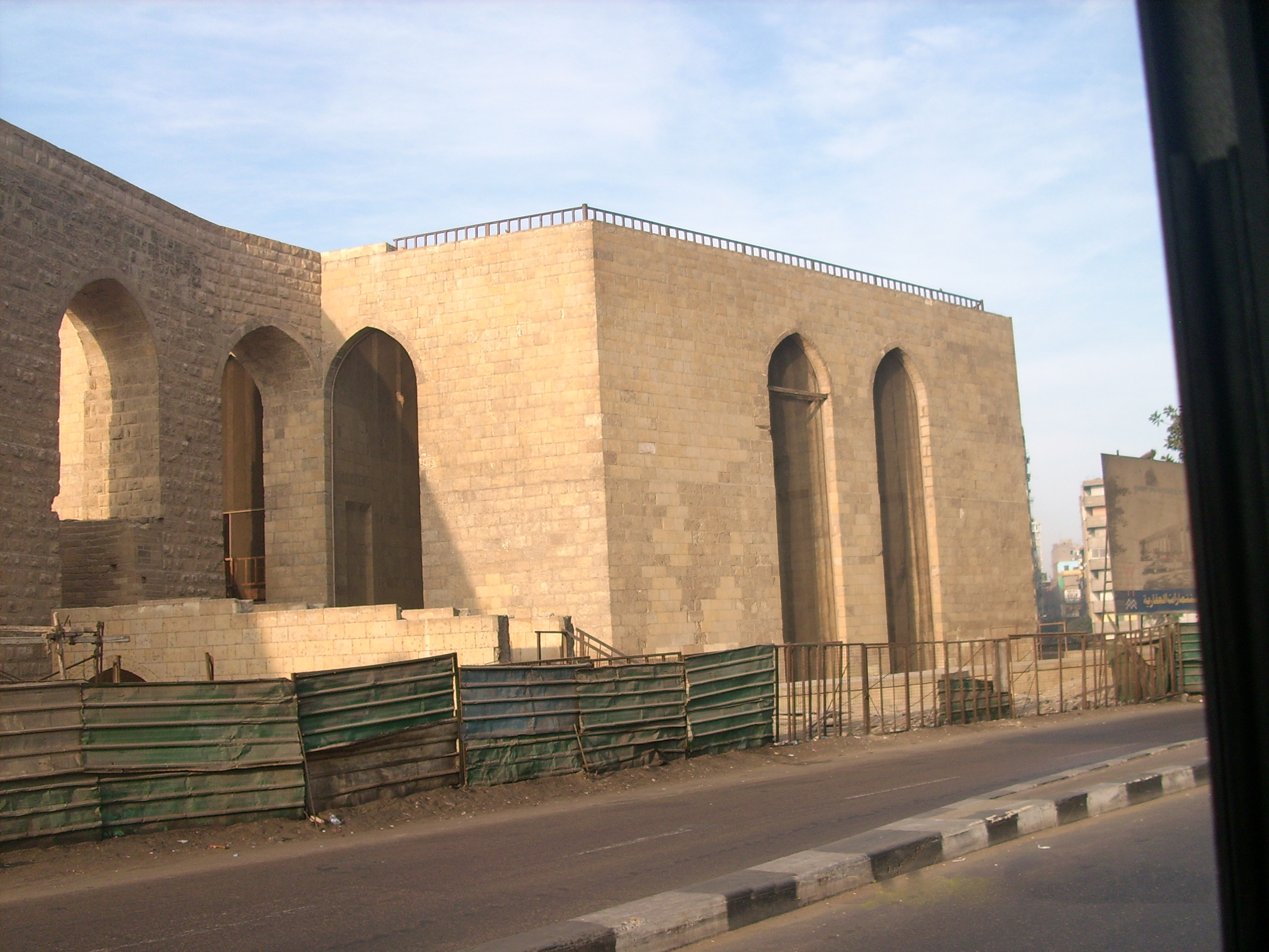 Cemetery of French Soldiers of Napoleon Egypte Expedition, Fomm el-Khaleeg - Cairo - Egypt